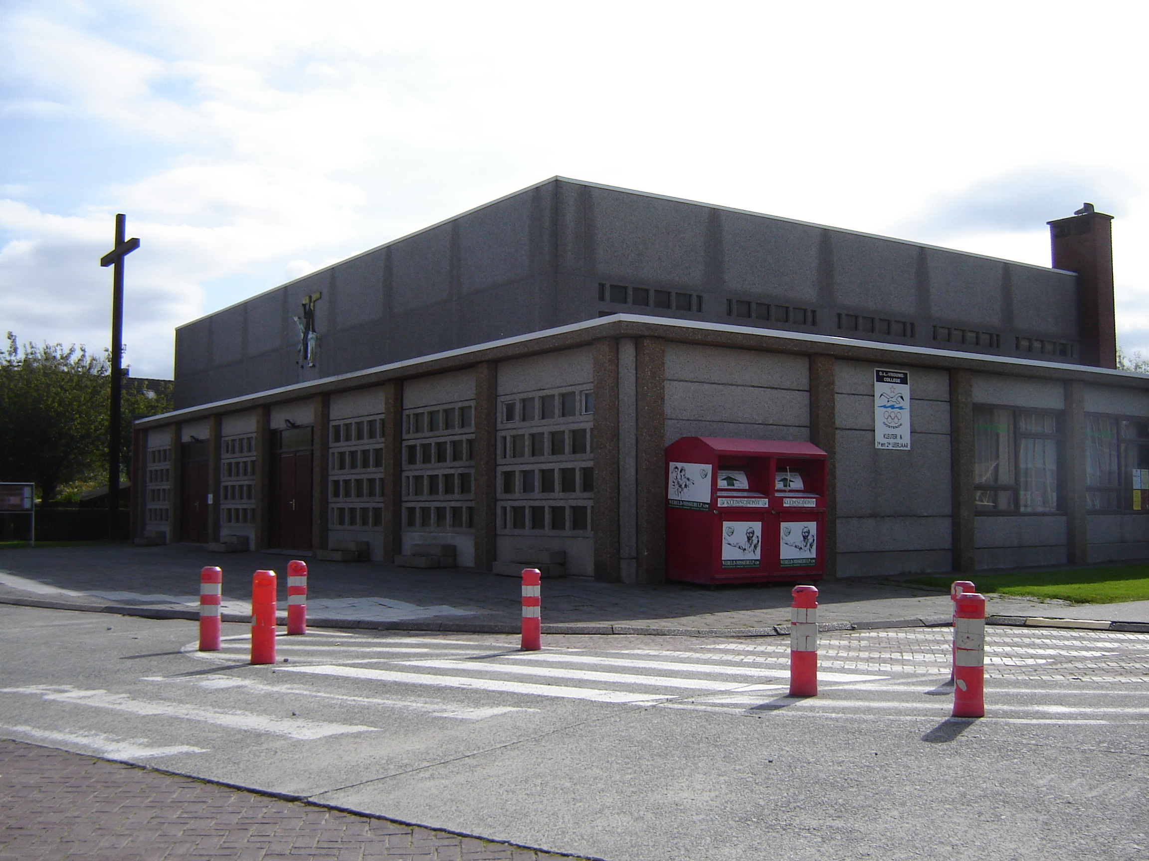 Church of Saint Francis of Assisi in Mariakerke. Mariakerke, Oostende, West Flanders, Belgium